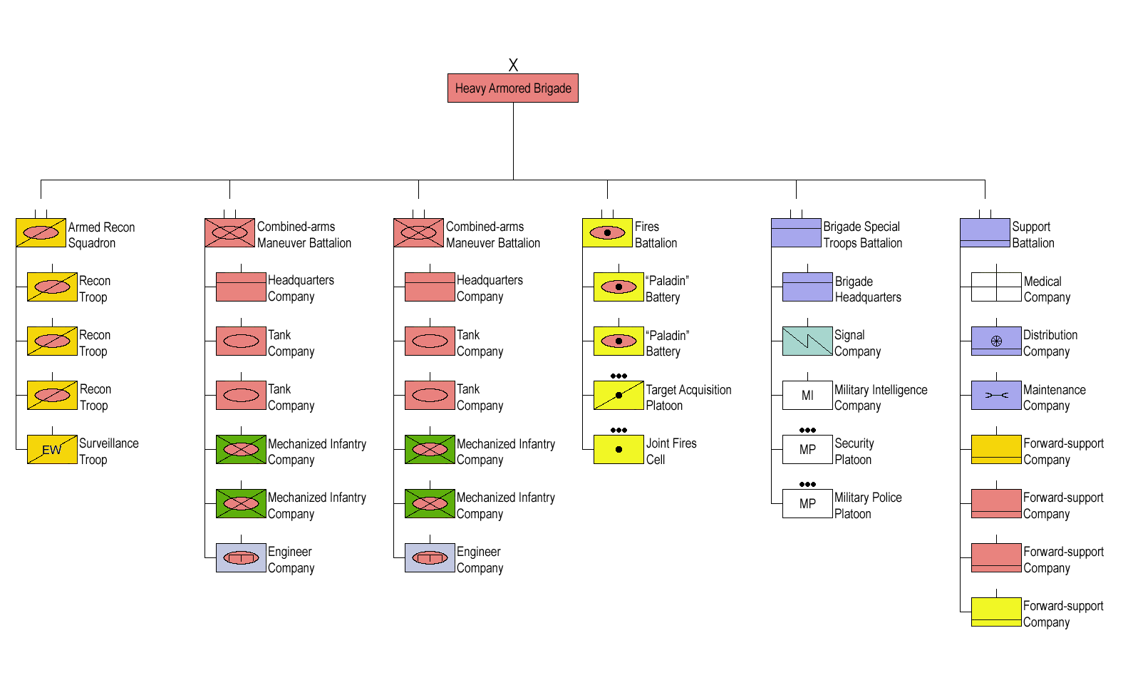 Heavy Armored Brigade Structure Transformation of the United States Army